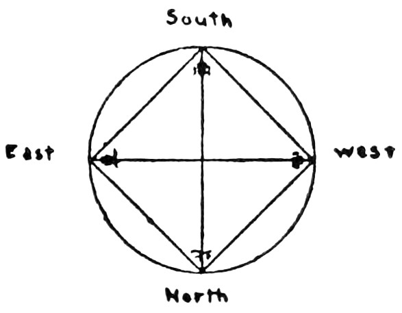 Illustration showing the theory of Ikebana.